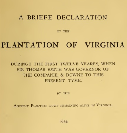 Virginia Colonial Records - Briefe Declaration